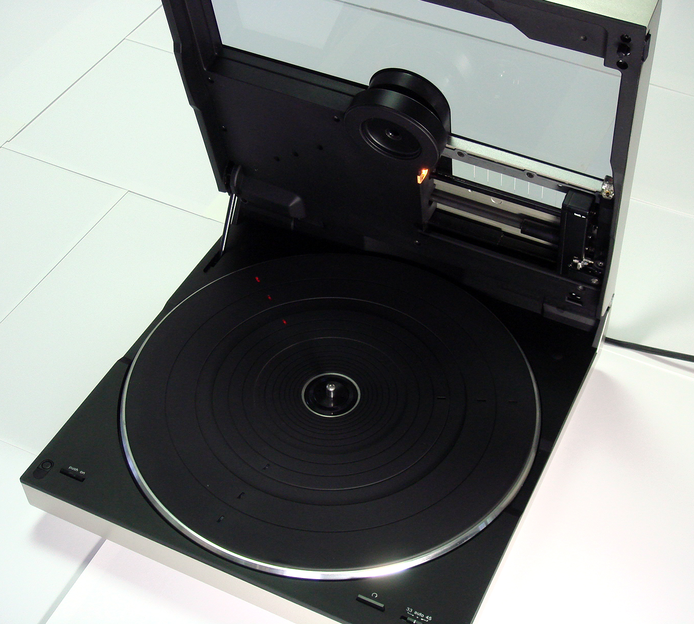 Picture of Technics SL-10, ser.DA26-04M182